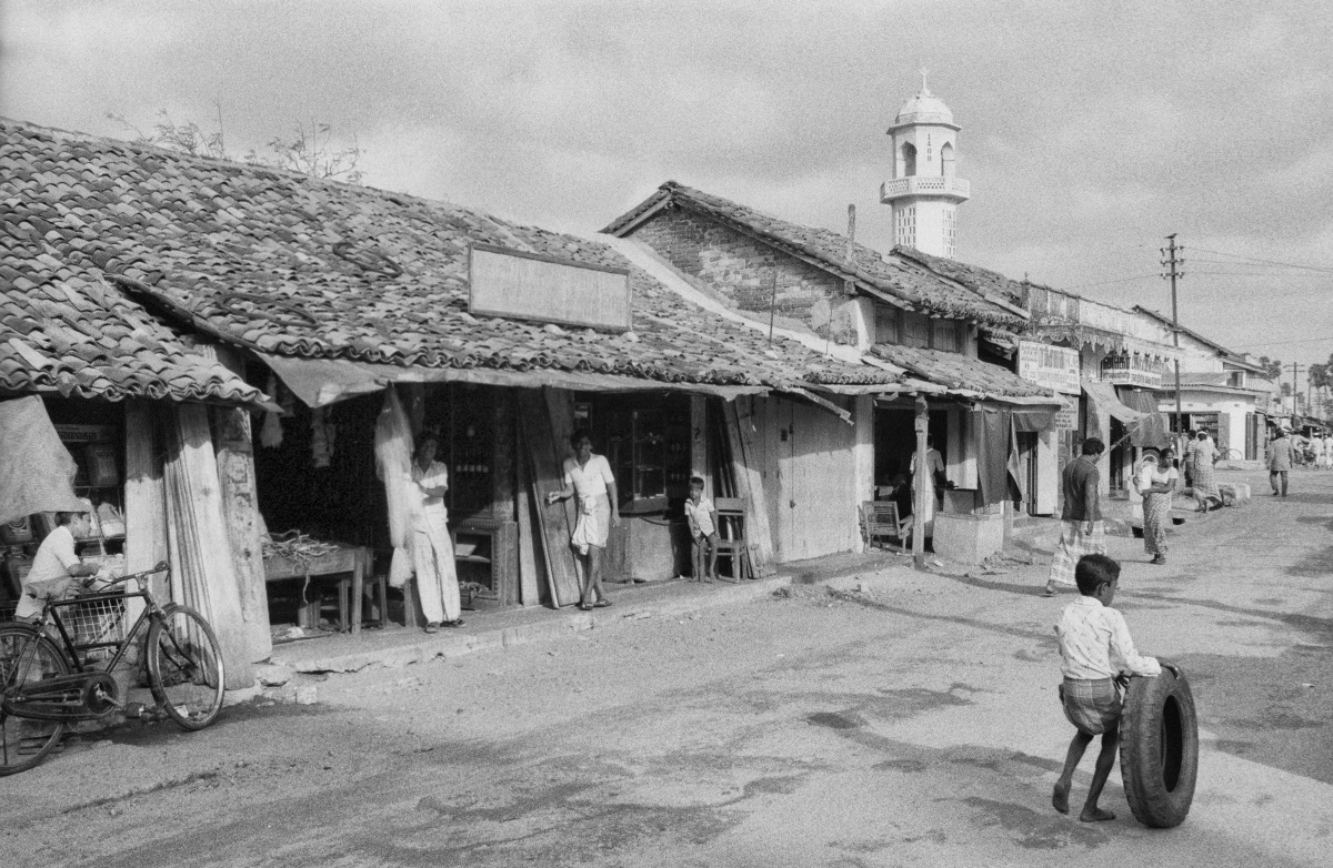 Puttalam street scenery, 1984